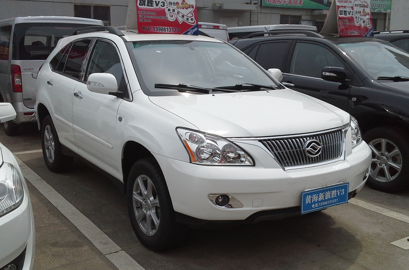 Huanghai Landscape V3 photographed in Wuhan, Hubei province, China.